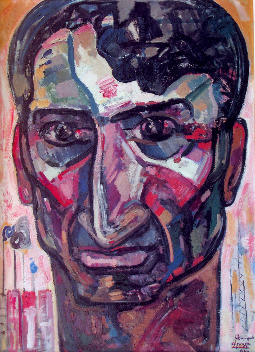 charentsvruir